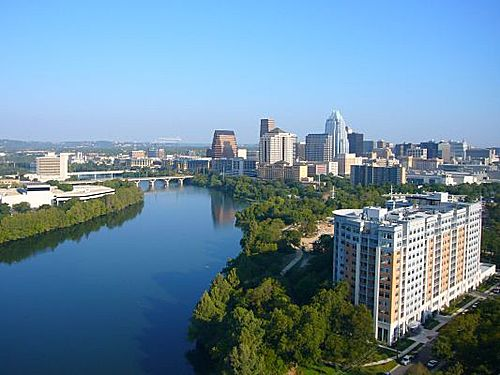 Skyline shot of downtown Austin